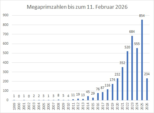 Megaprimes found by year according to the largest known primes database ( Updated to include primes found in 2019.